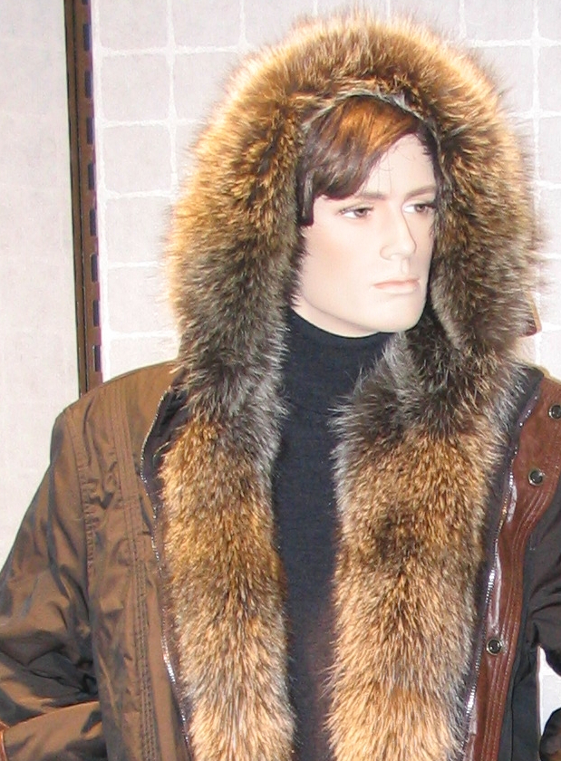 Raccoon and mink